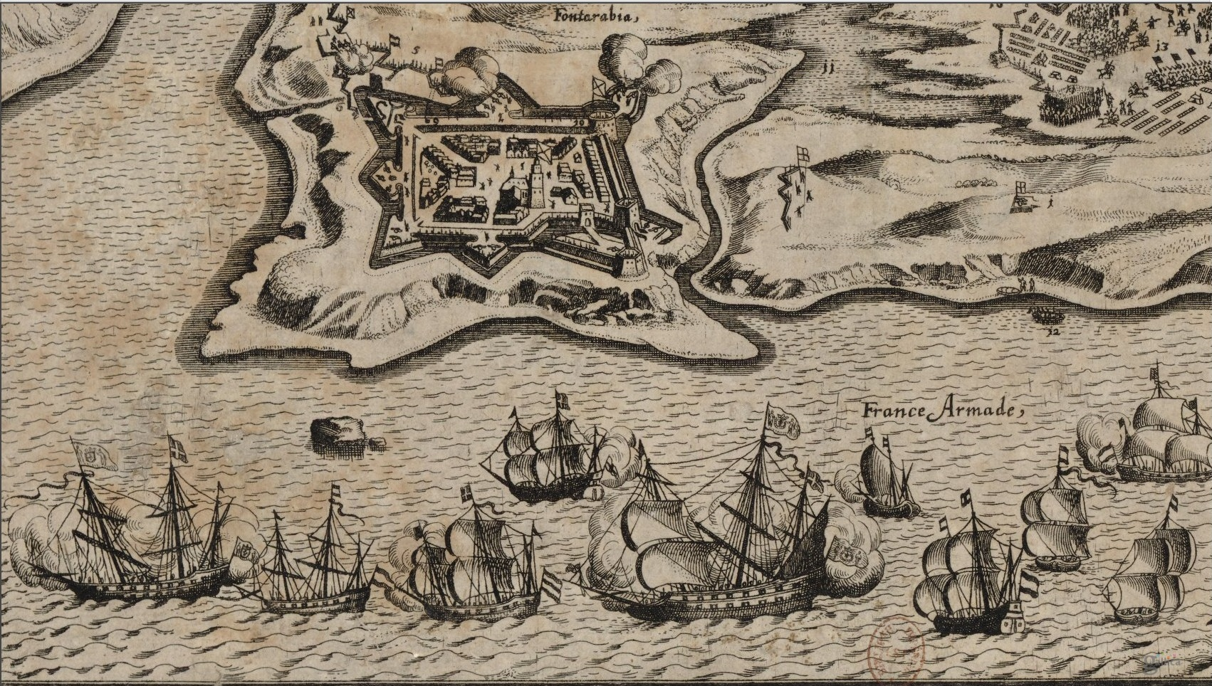 Sourdis fleet on the coasts of the Basque country in 1638 during the siege of Hondarribia. German antique print (detail).